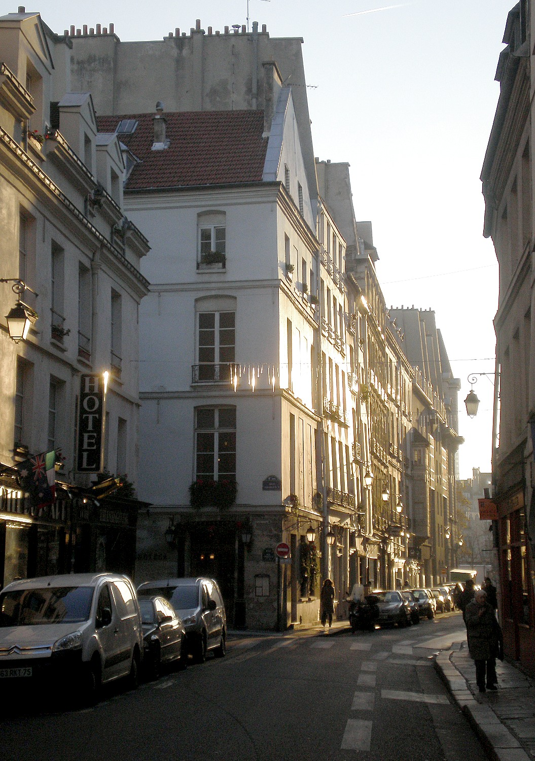 Saint-Paul street - Paris